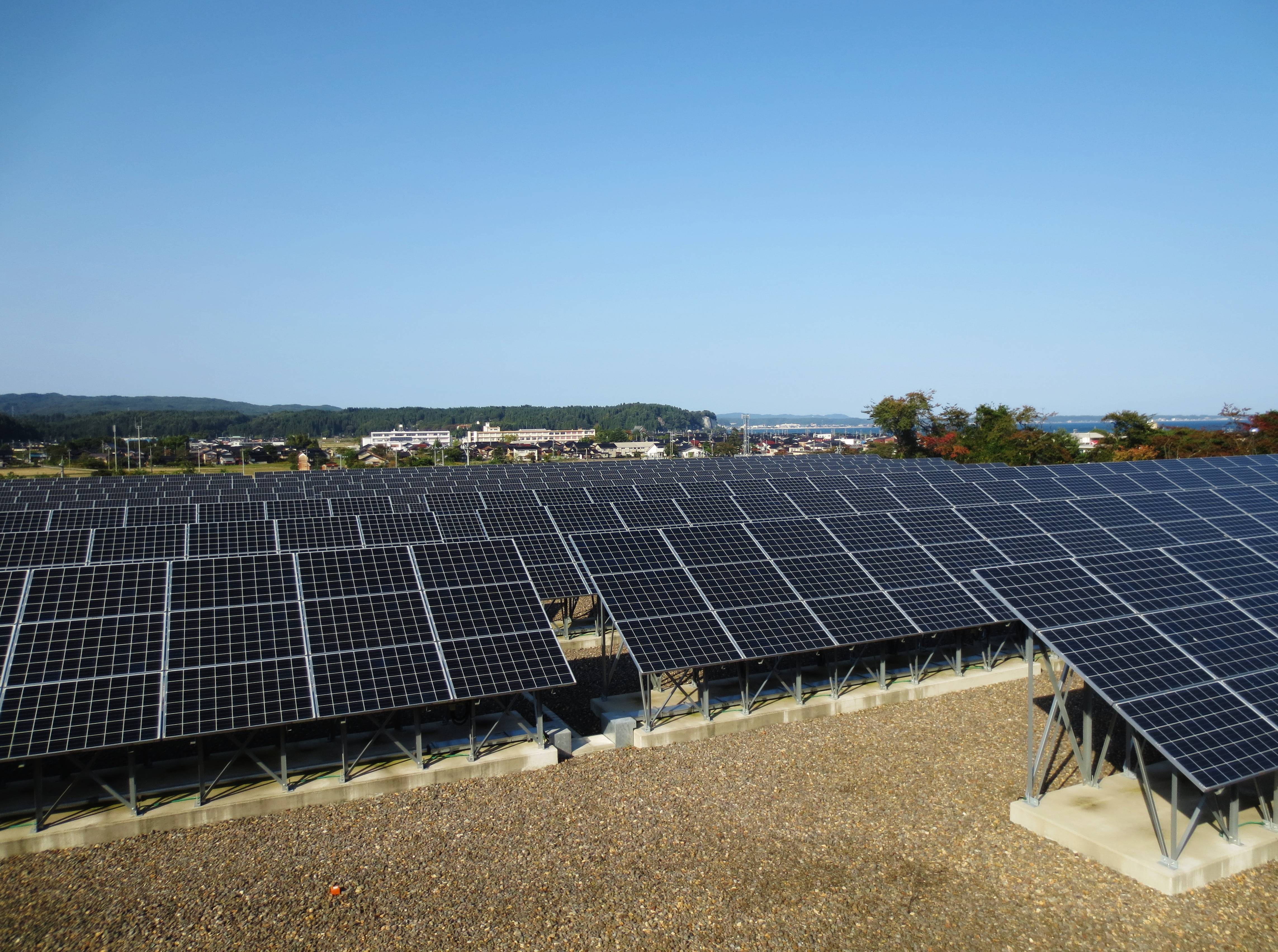 Suzu Photovoltaic Power Station.